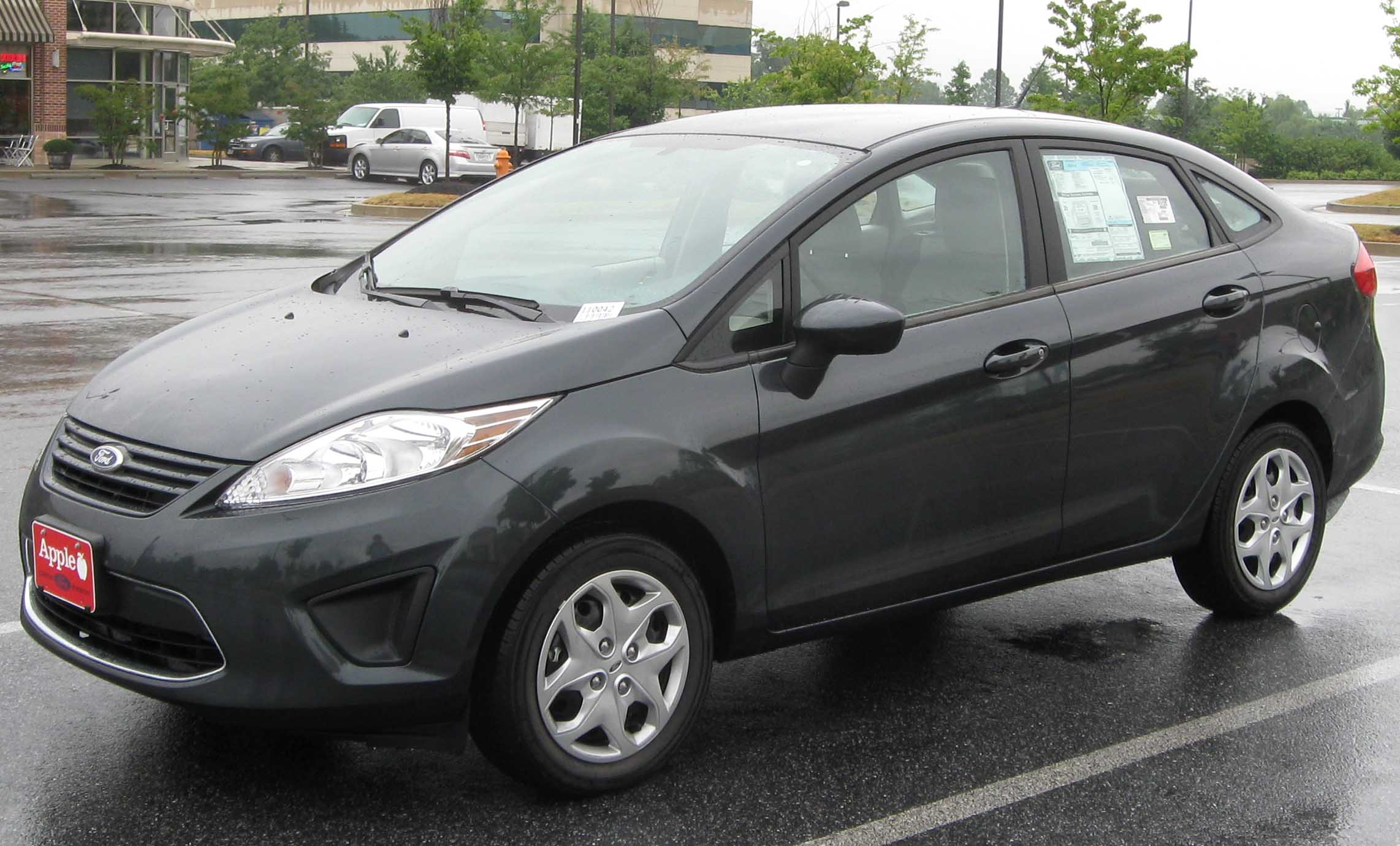 2011 Ford Fiesta photographed in Columbia, Maryland, USA.